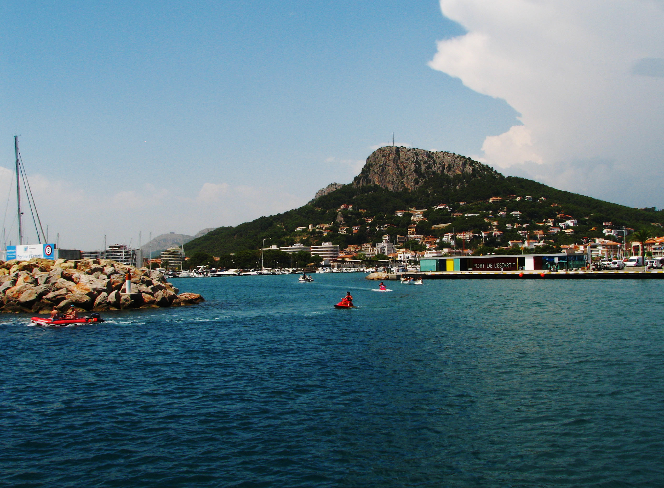 View of L'Estartit port.